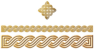 Croatian military rank - Major